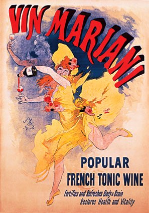 Mariani tonic Wine - lithography by Jules Cheret, 1894